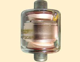 A fixed value vacuum capacitor.